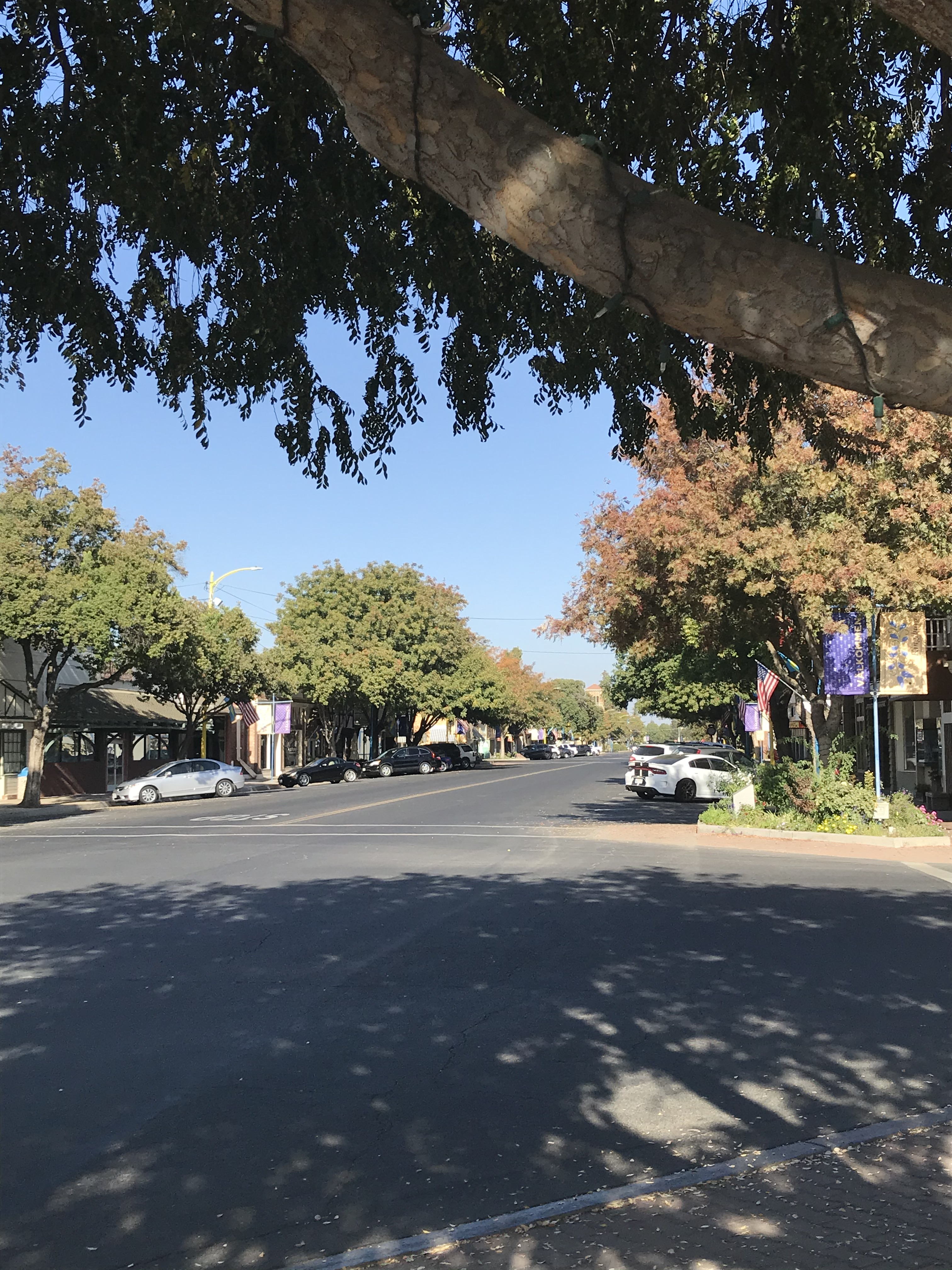 Draper St. in downtown Kingsburg, California.